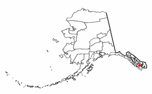 Adapted from Wikipedia's AK borough maps by Seth Ilys.